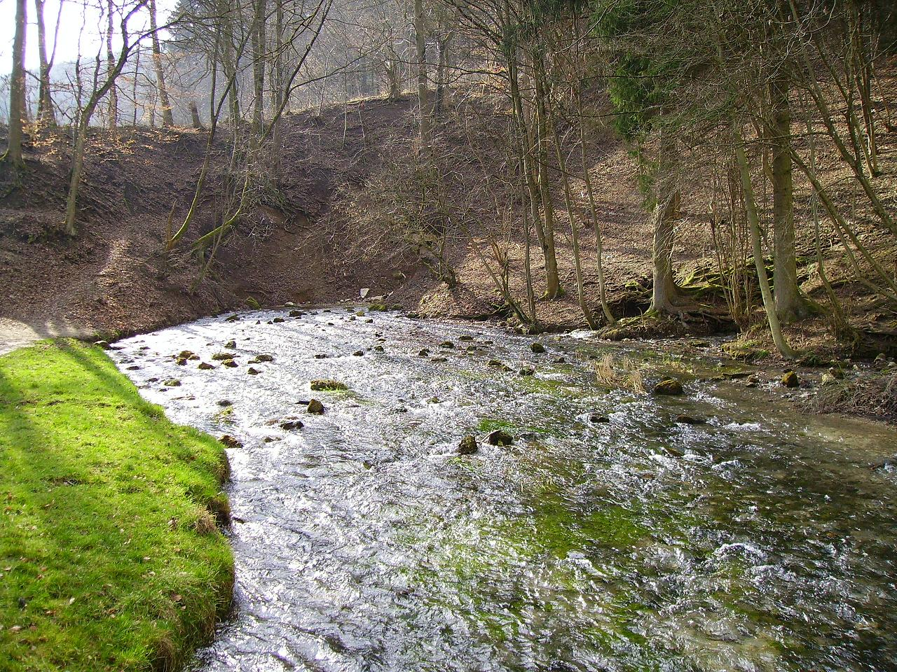 Karst spring Schwarzer Kocher, Schwäbische Alb, tributary of Neckar, Germany.